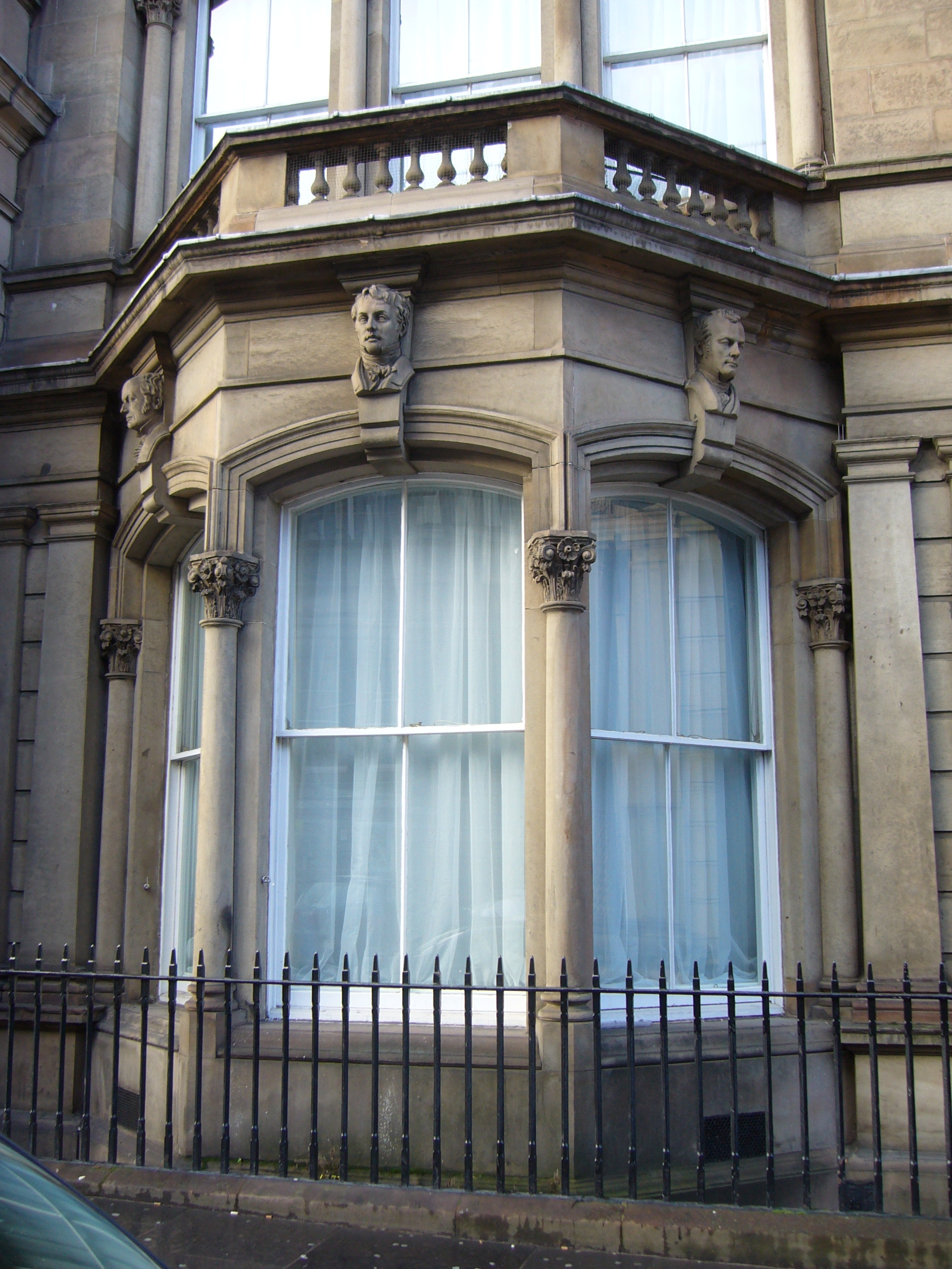 A window of the Museum of the Phrenological Society of Edinburgh, with sculpted portraits of (l. to r.) Dr. Franz Joseph Gall, William Ramsay Henderson and Dr. Johann Gaspar Spurzheim. A fourth portrait on another window shows the Society's founder, George Combe. The building in Chambers Street is now part of the Crown Office.